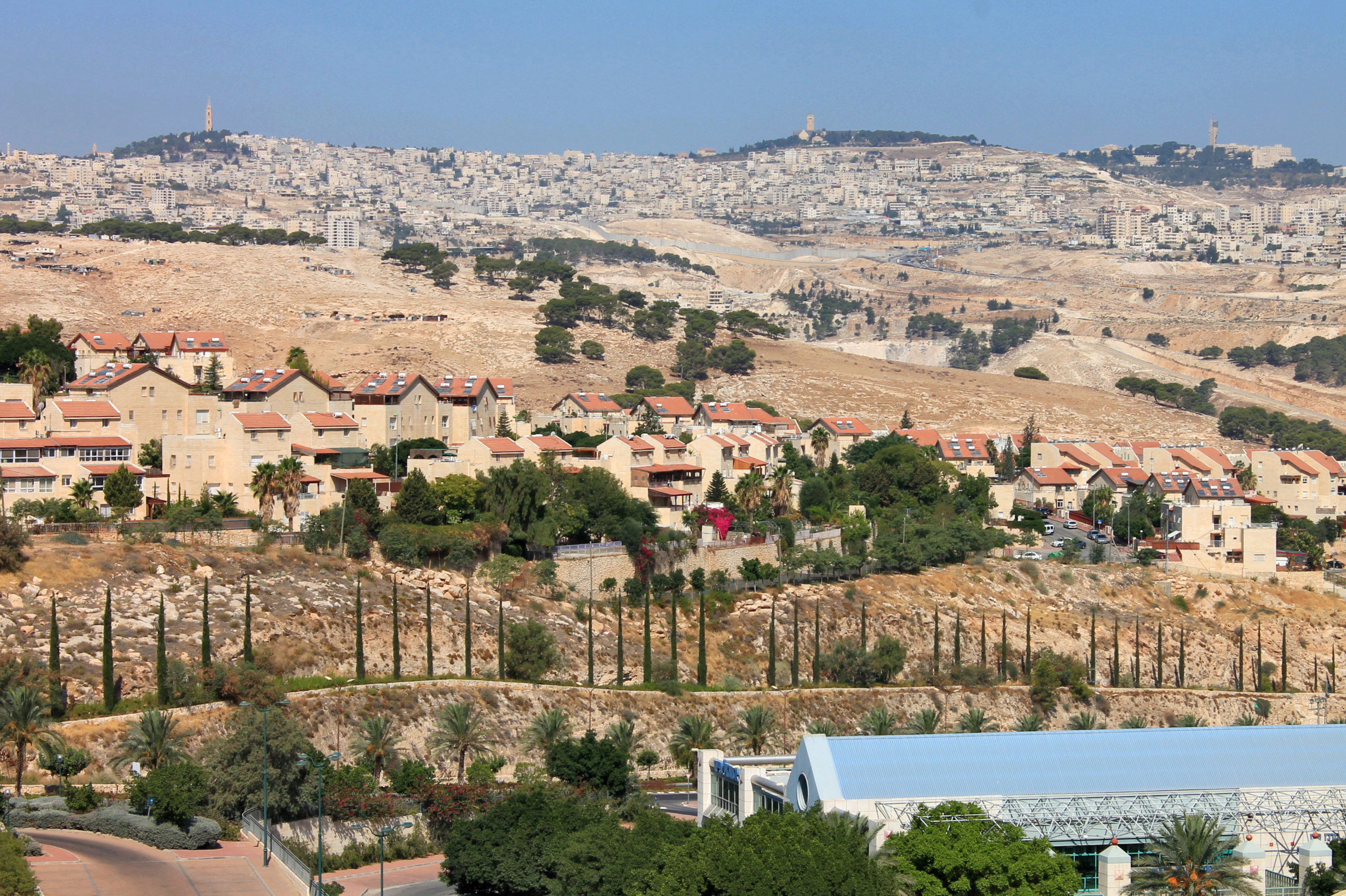 ma'ale adumim, view from Maale Adumim Cultural Hall - Mount of Olives and Mount Scopus in the background